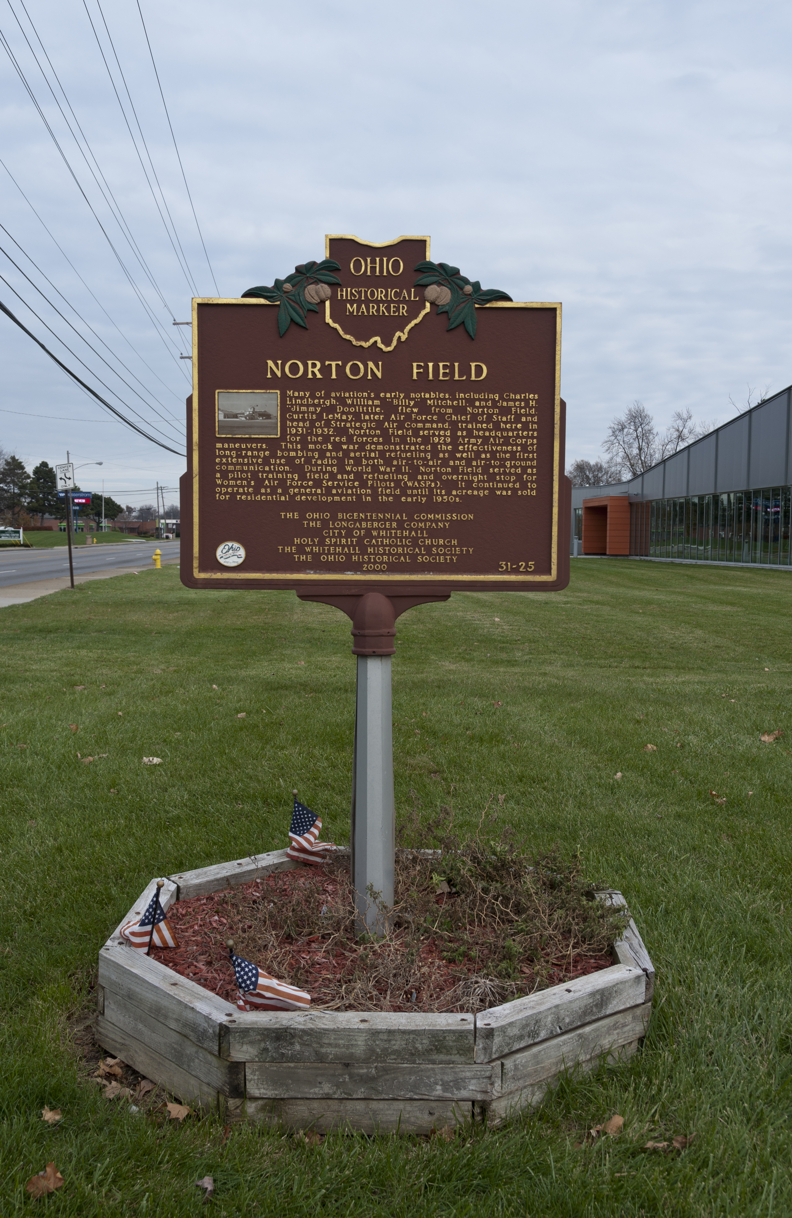 The Historical Marker for the first airport in central Ohio, Norton Field viewed from the west.